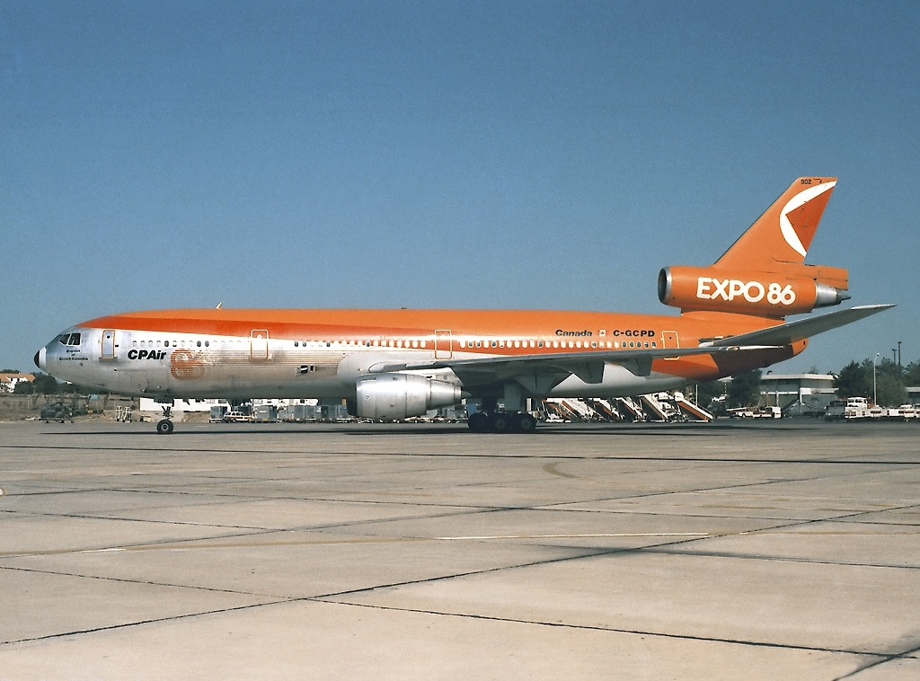 Expo 86.